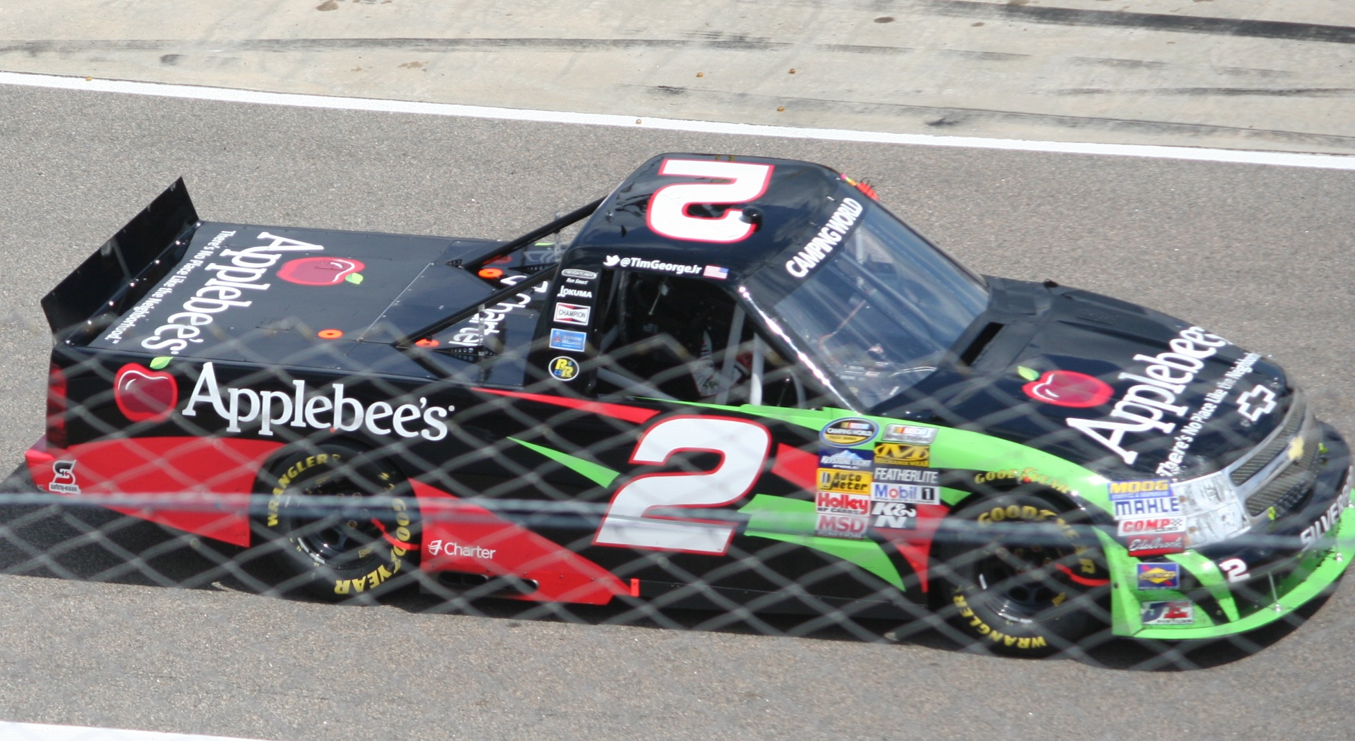 Tim George, Jr. drives the No. 2 for Richard Childress Racing at Rockingham Speedway during the 2012 Good Sam Roadside Assistance 200.